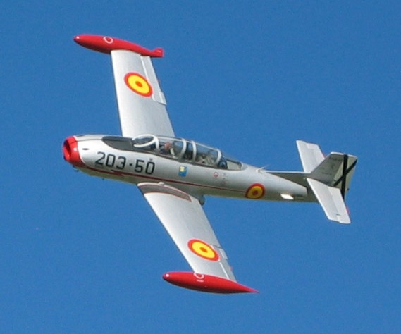 This retro-looking jet is the Hispano Aviación HA-200 "Saeta", the first Spanish jet engine aircraft. The photo was taken at an exhibition by the Infante de Orleans Foundation, in Cuatro Vientos, Madrid, Spain. This babe took its first flight in 1955.